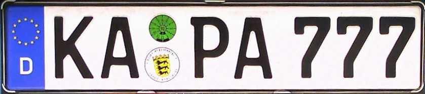 German Vehicle Rear License Plate in FE-Font.